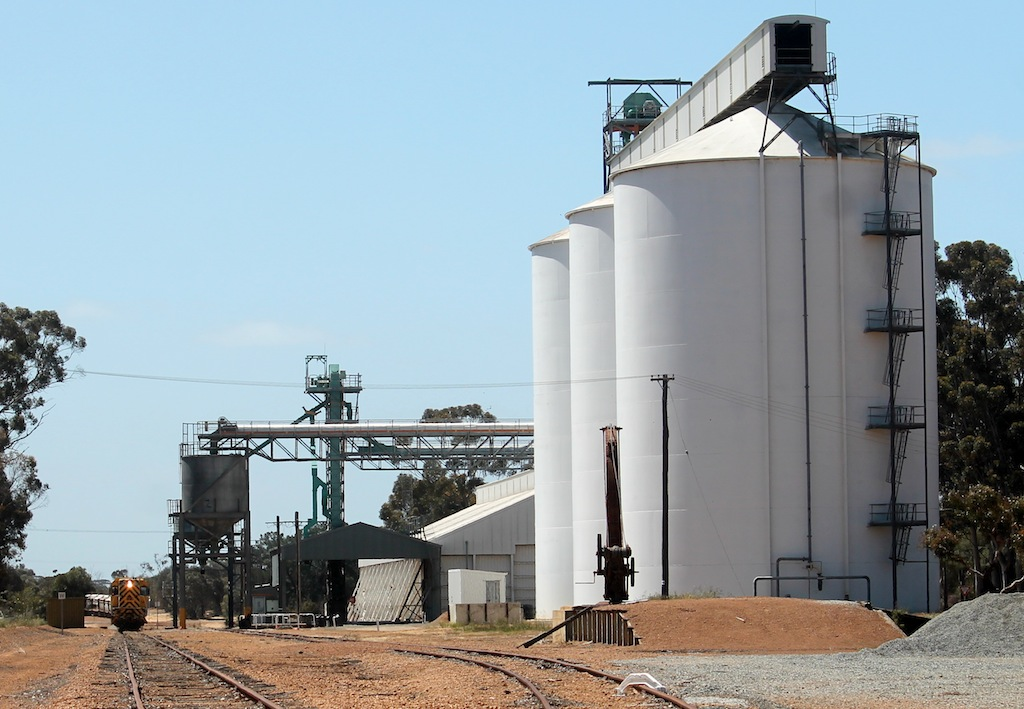 Yealering, Western Australia, CBH grain receival and storage at the Merredin to Narrogin railway line